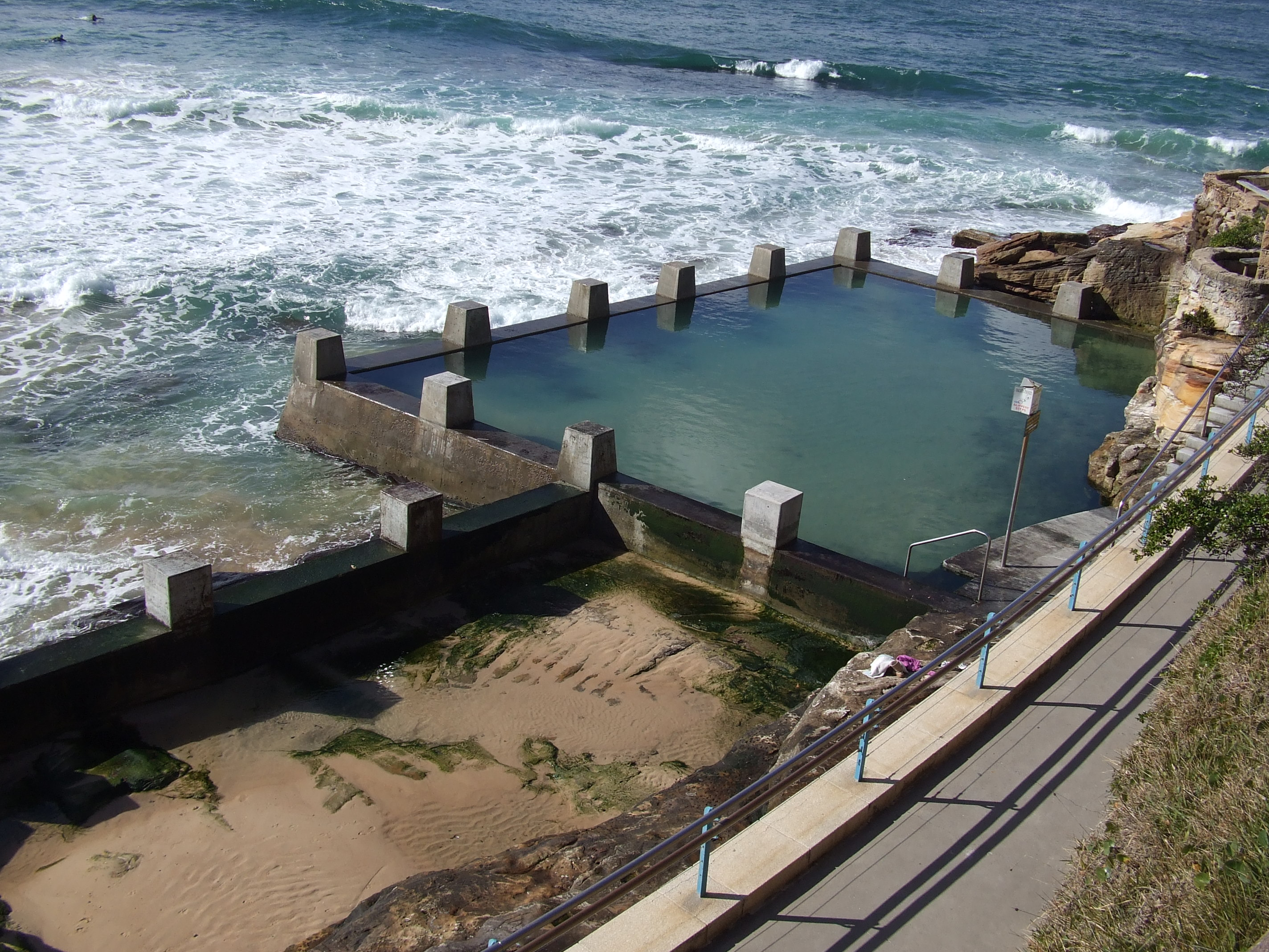 The Ross Jones Memorial Pool at Coogee Beach, Sydney, New South Wales, Australia